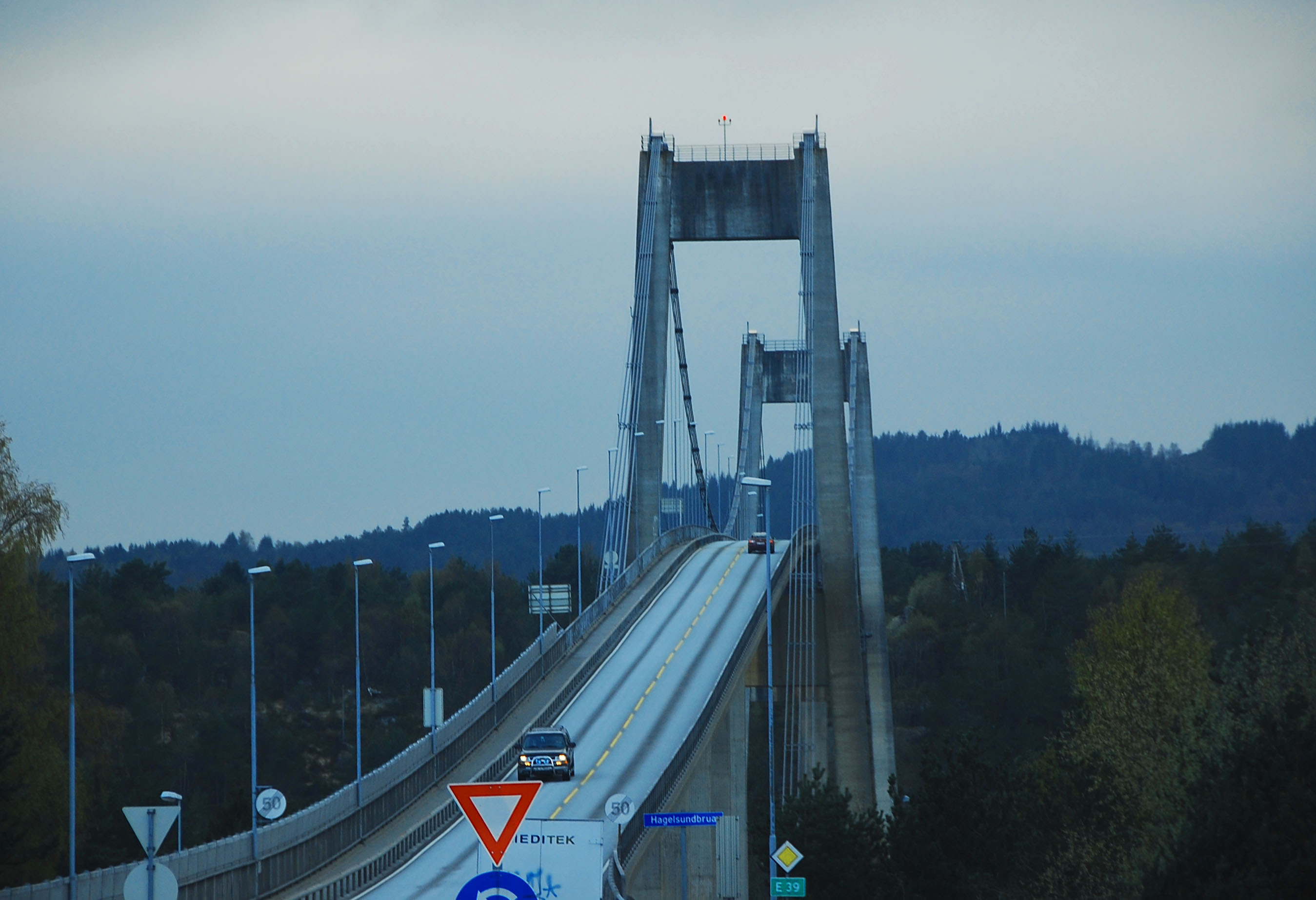 April 18th 304